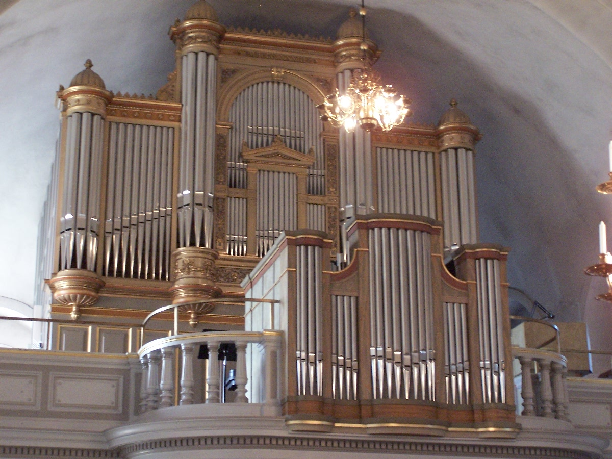 The organ in Söderhamn church, Sweden